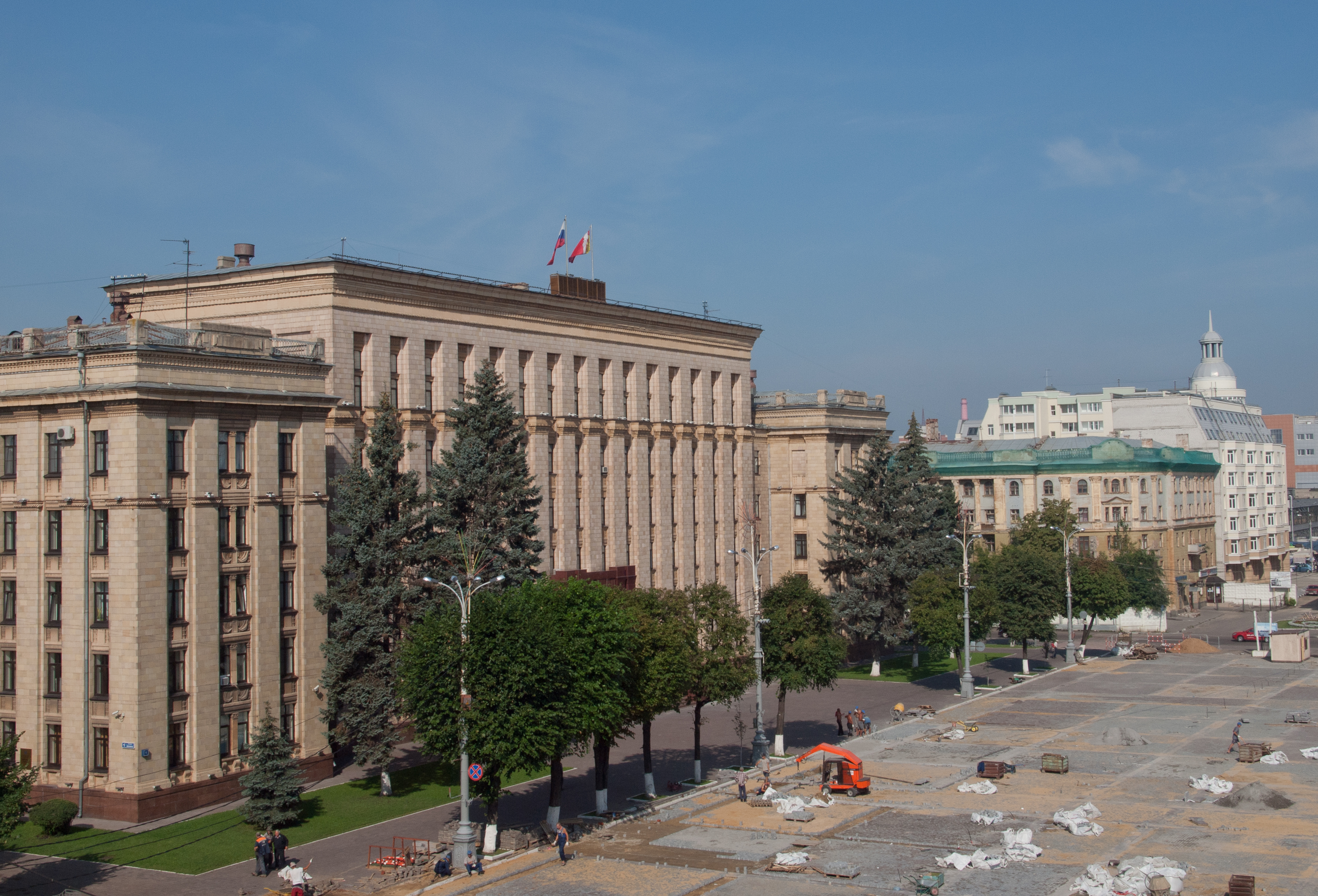 Wikiconference-2011 in Voronezh, Russia